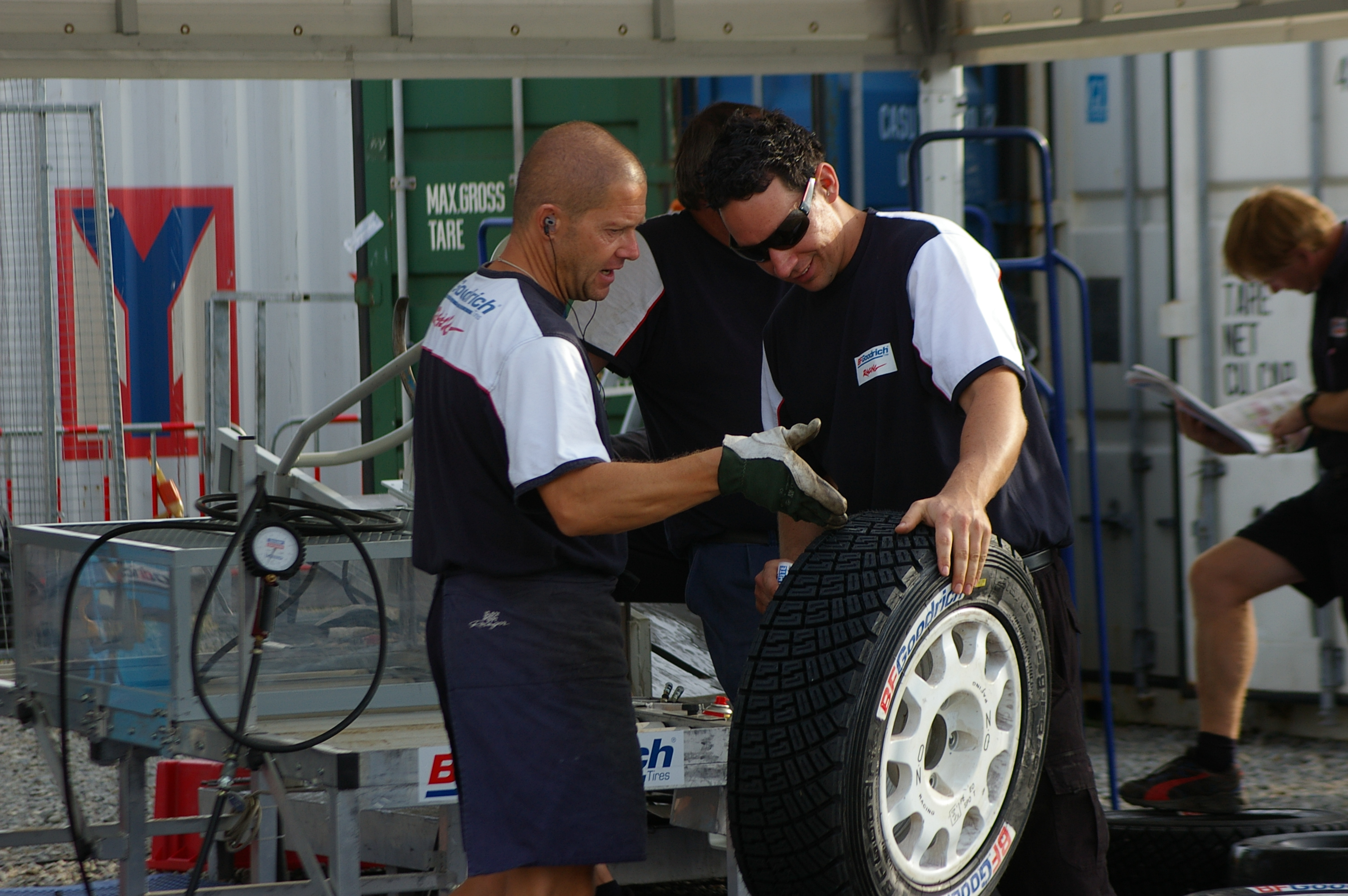 The BF Goodrich staff who plays an active part in the spot of RallyJapan2006.